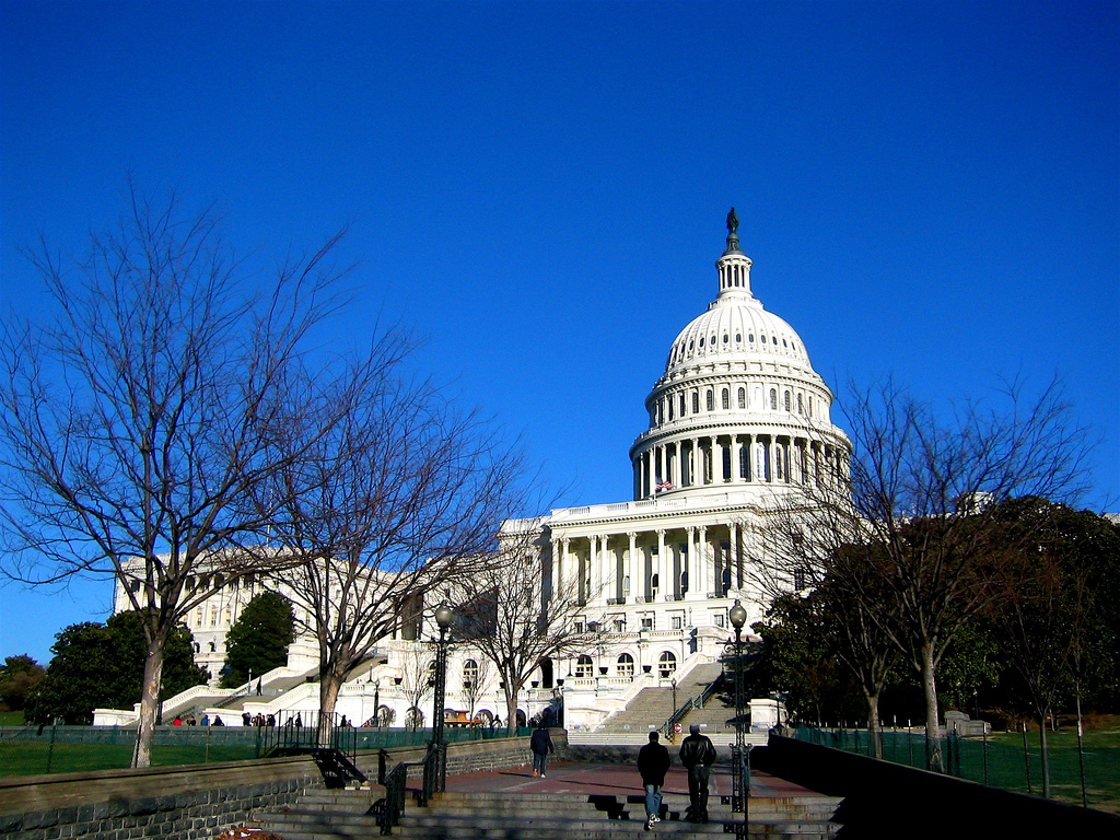 Capitol Hill